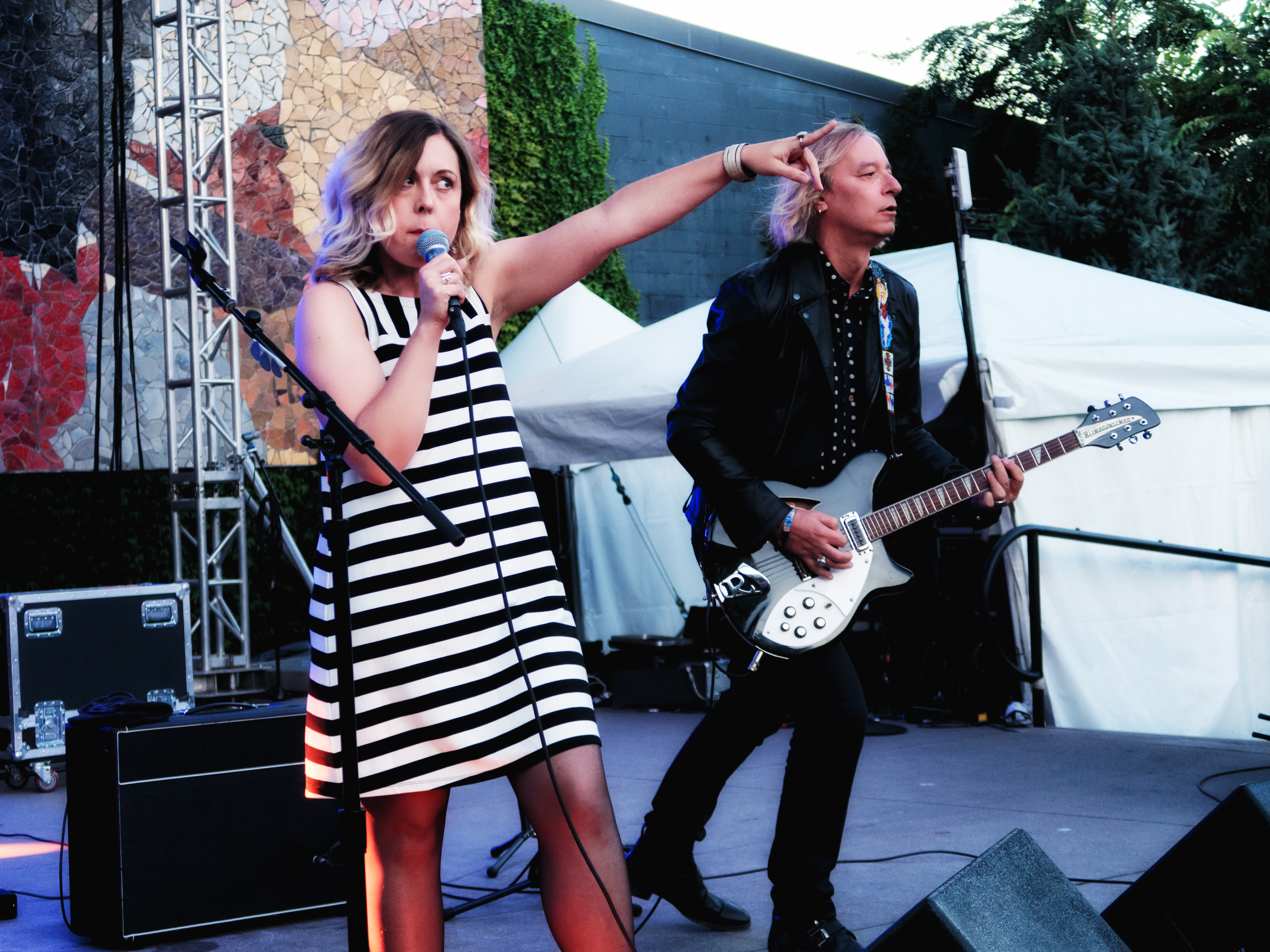 Performing at Bumbershoot 2017, Seattle, WA